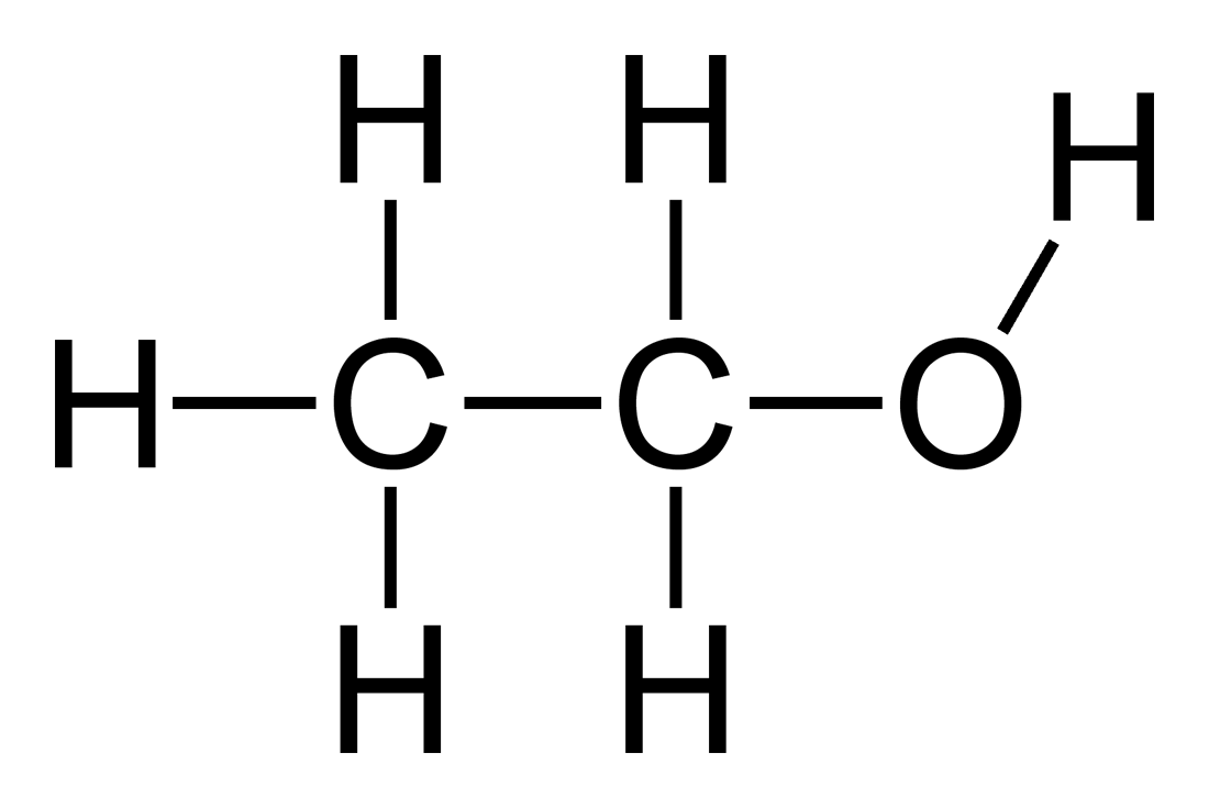 Structural formula of ethanol